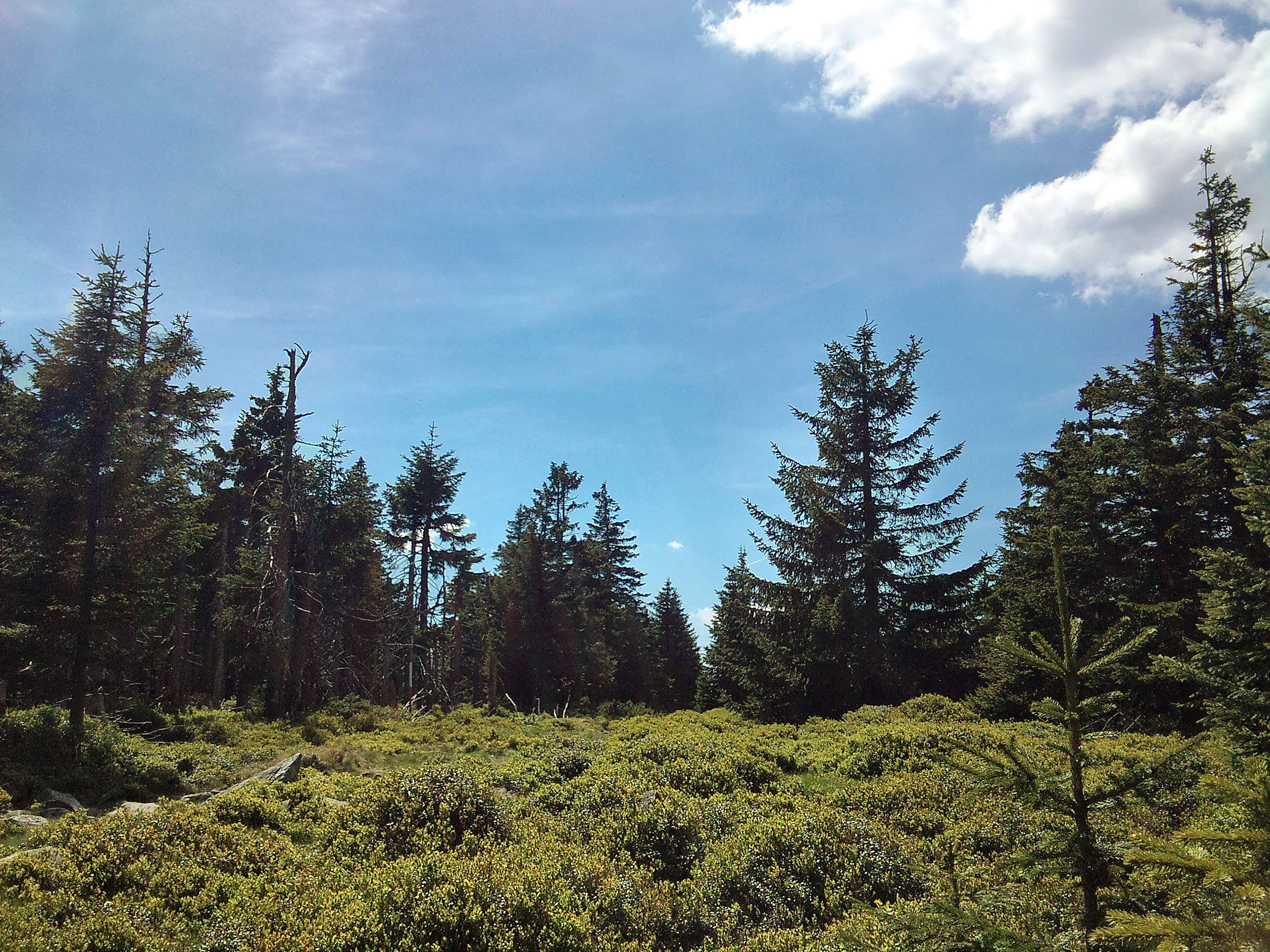 Flat summit of Čelo in the Giant Mountains (Krkonoše)